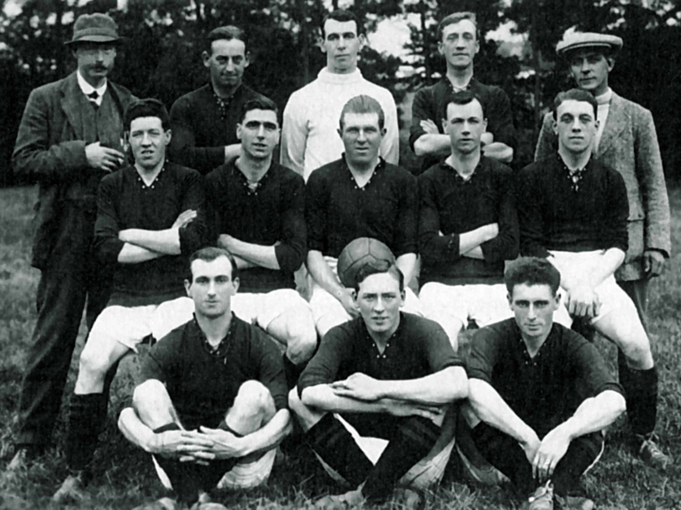 York City players line-up before the team's first home match on 9 September 1922